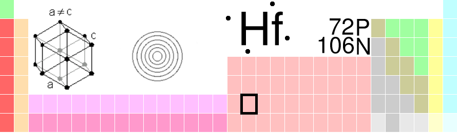 Image by GreatPatton, released under terms of the GNU FDL in July 2003.